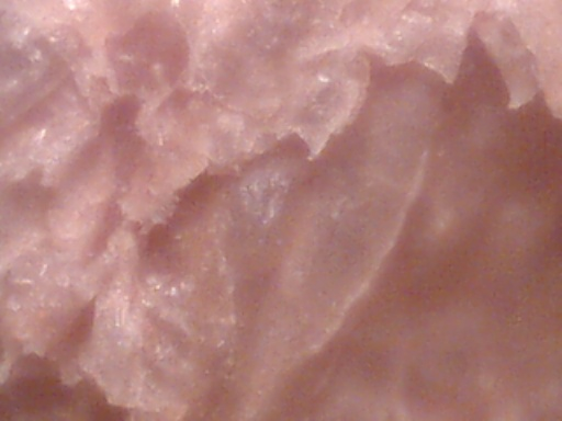 wholegrain crispbread surface, magnified 60x